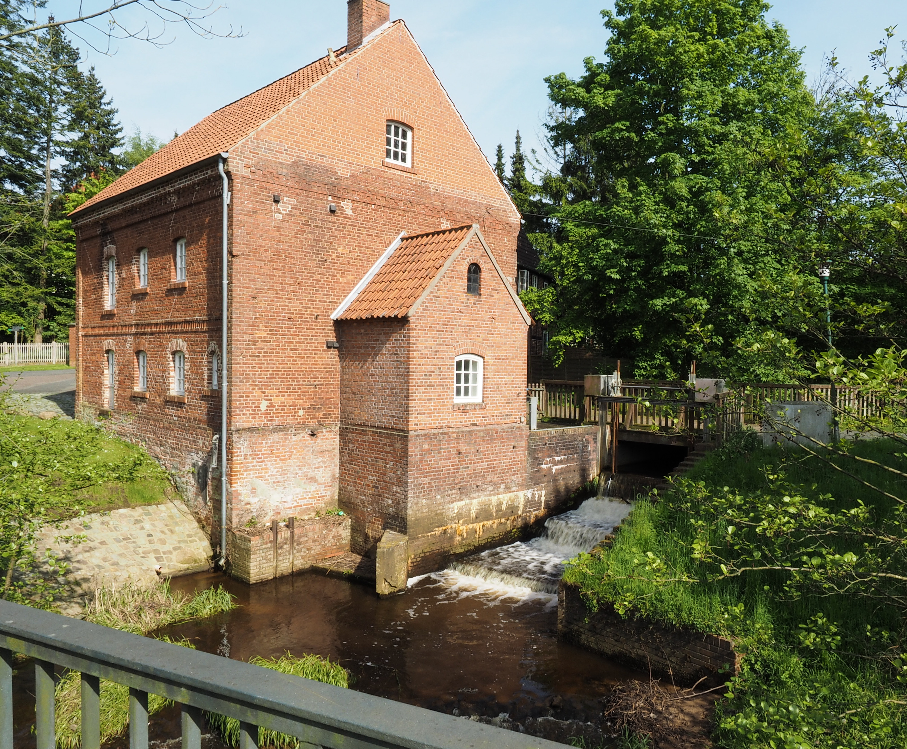 Cultural Heritage Monument in Bassum - Stiftsmühle